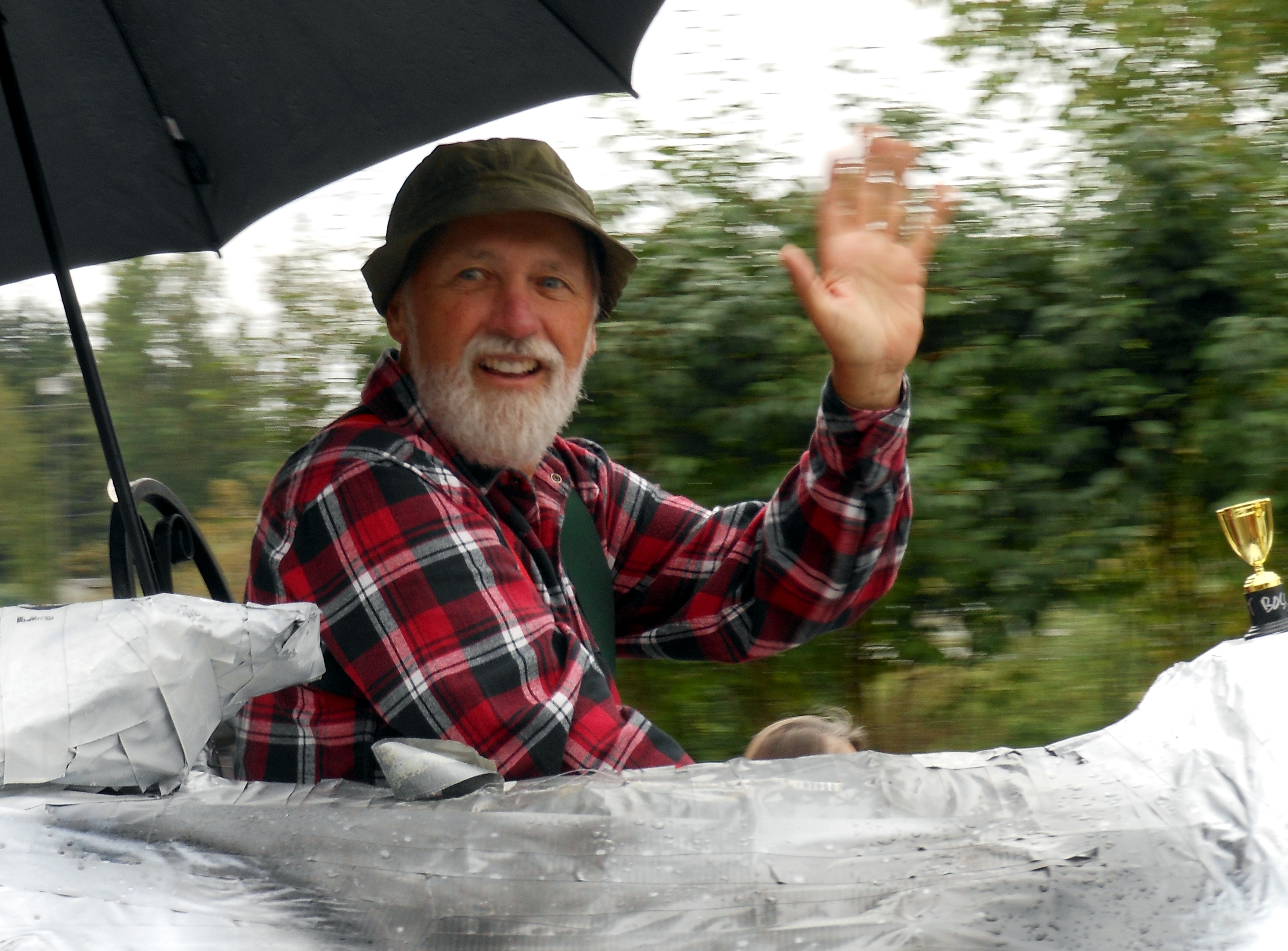 Steve Smith, dressed up as his character Red Green, rides in the 2012 Golden Days Parade. He was representing local affilate KUAC in their float.